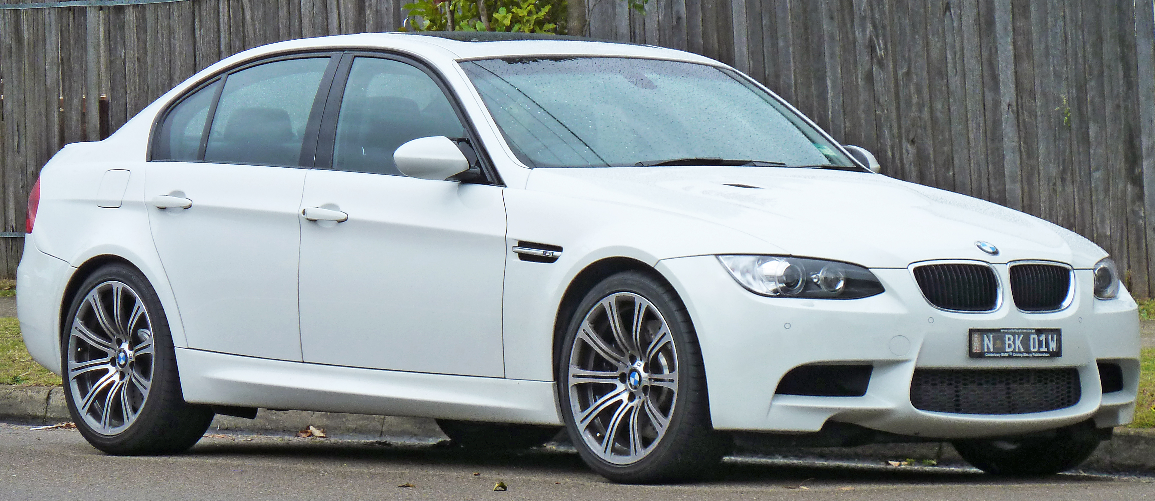 2008–2010 BMW M3 (E90) sedan. Photographed in Sans Souci, New South Wales, Australia.